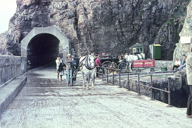 The Maseline Harbour, Sark, in 1968. The Maseline Harbour is used by the passenger ferries and goods delivery. The horse-drawn carriages are a feature of Sark (which has no motor vehicles other than tractors). Tourists can book these to take them to and from the harbour, or for a tour of the island. Indeed, when we first arrived on Sark, we booked one to take us to our guest house.